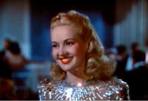 Betty Grable in Down Argentine Way - trailer (cropped screenshot)